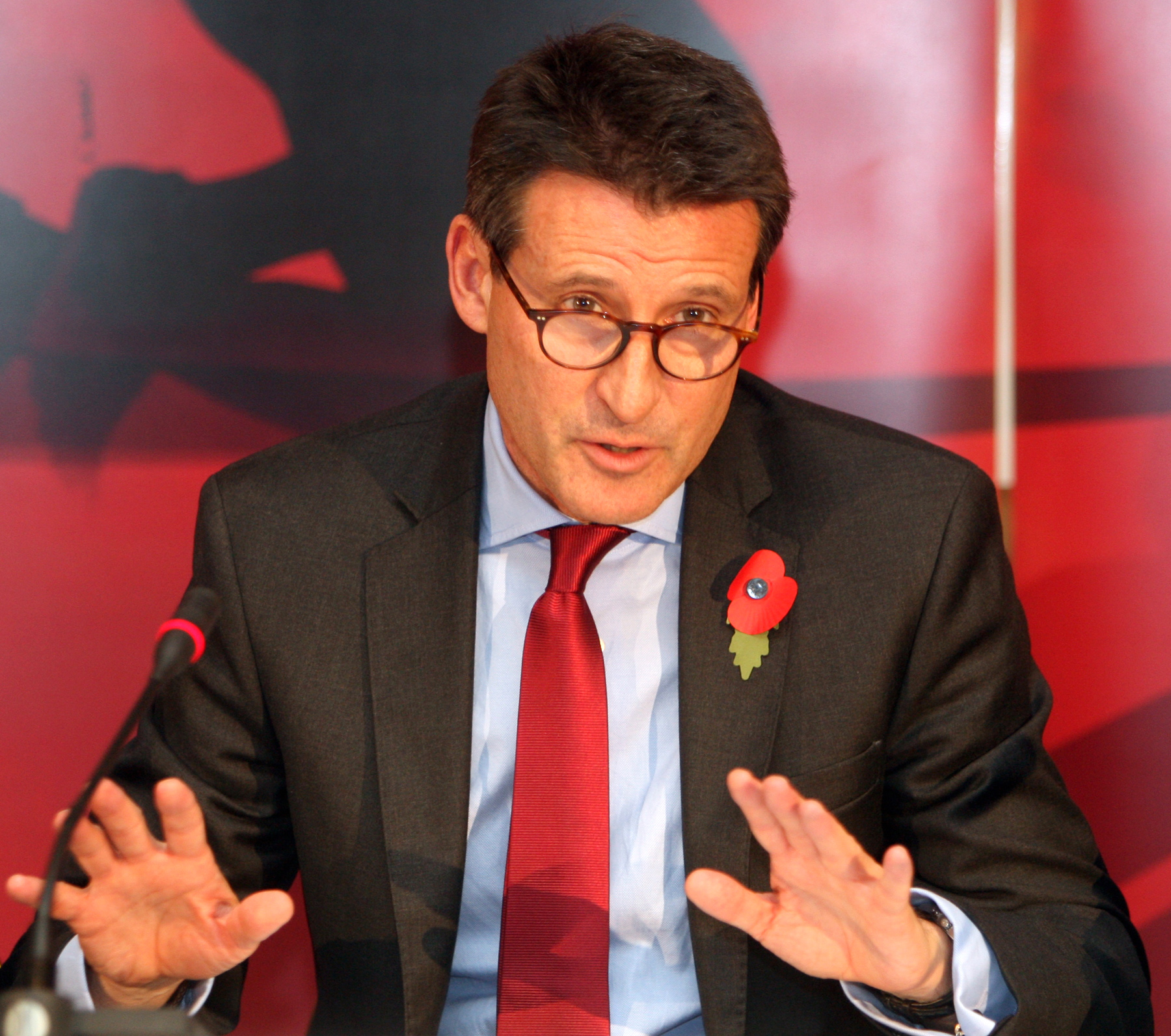 Sebastian Coe attends a Press Conference after his presentation of the 2017 bid for the IAAF World Championships in Monaco. Pic by Mohan